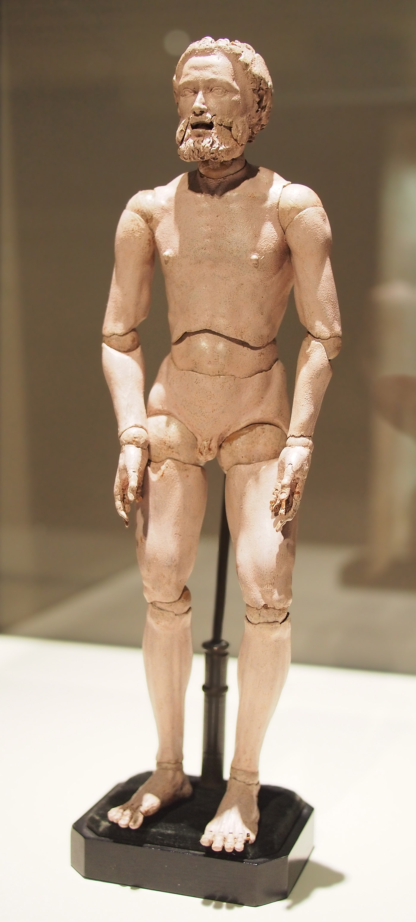 Lay figure (c. 1525) by Albrecht Dürer (1471-1528); boxwood, 28 cm. Prado Museum, Madrid.